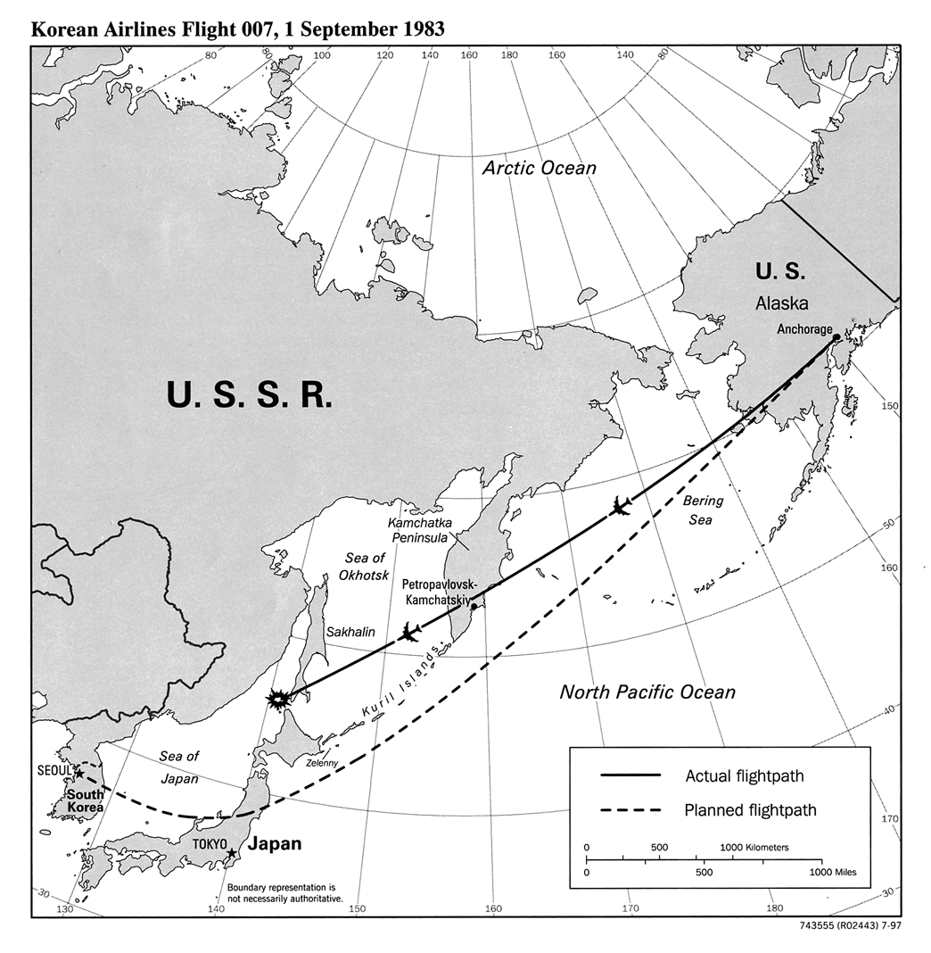 The Korean Airlines Flight 007 flight path, compared to the intended flight path